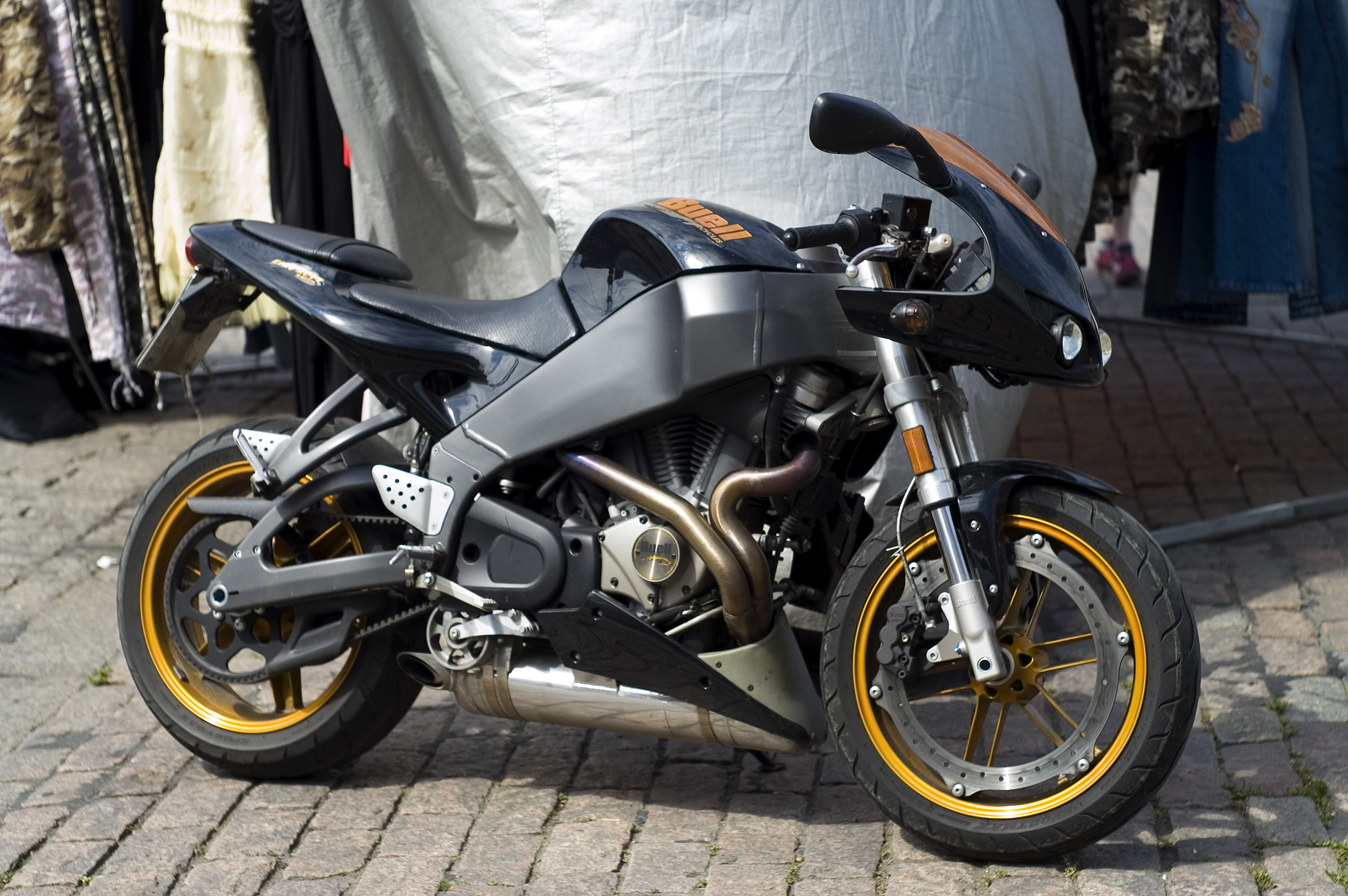 Buell Firebolt XB12